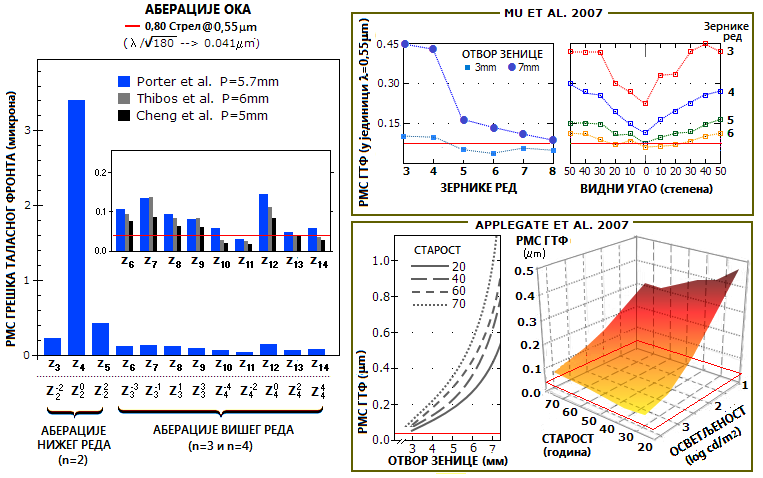 АБЕРАЦИЈЕ ОКА